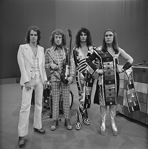 Slade in AVRO's TopPop (Dutch television show) in 1974